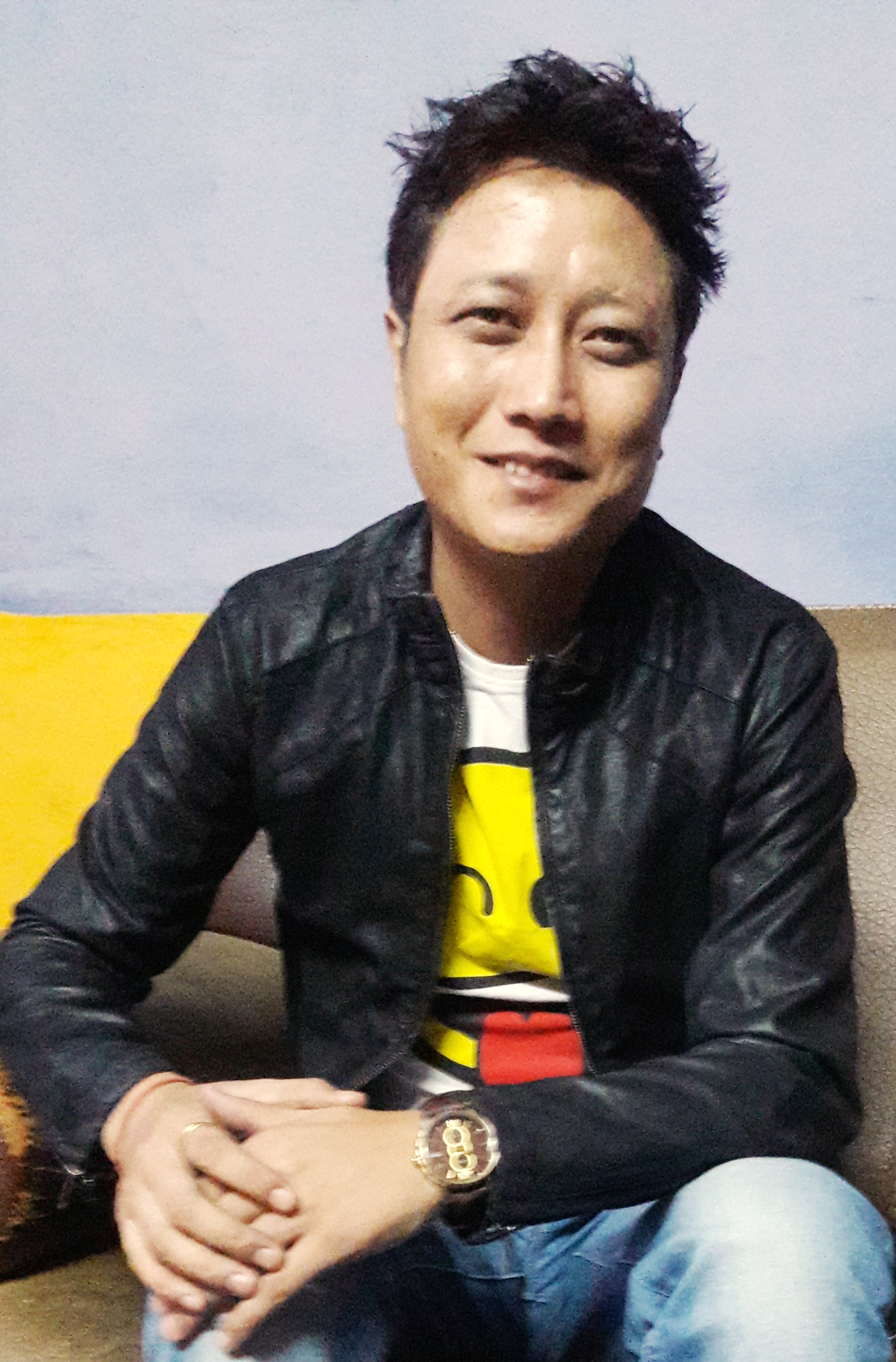 Prashant Tamang, Nepal